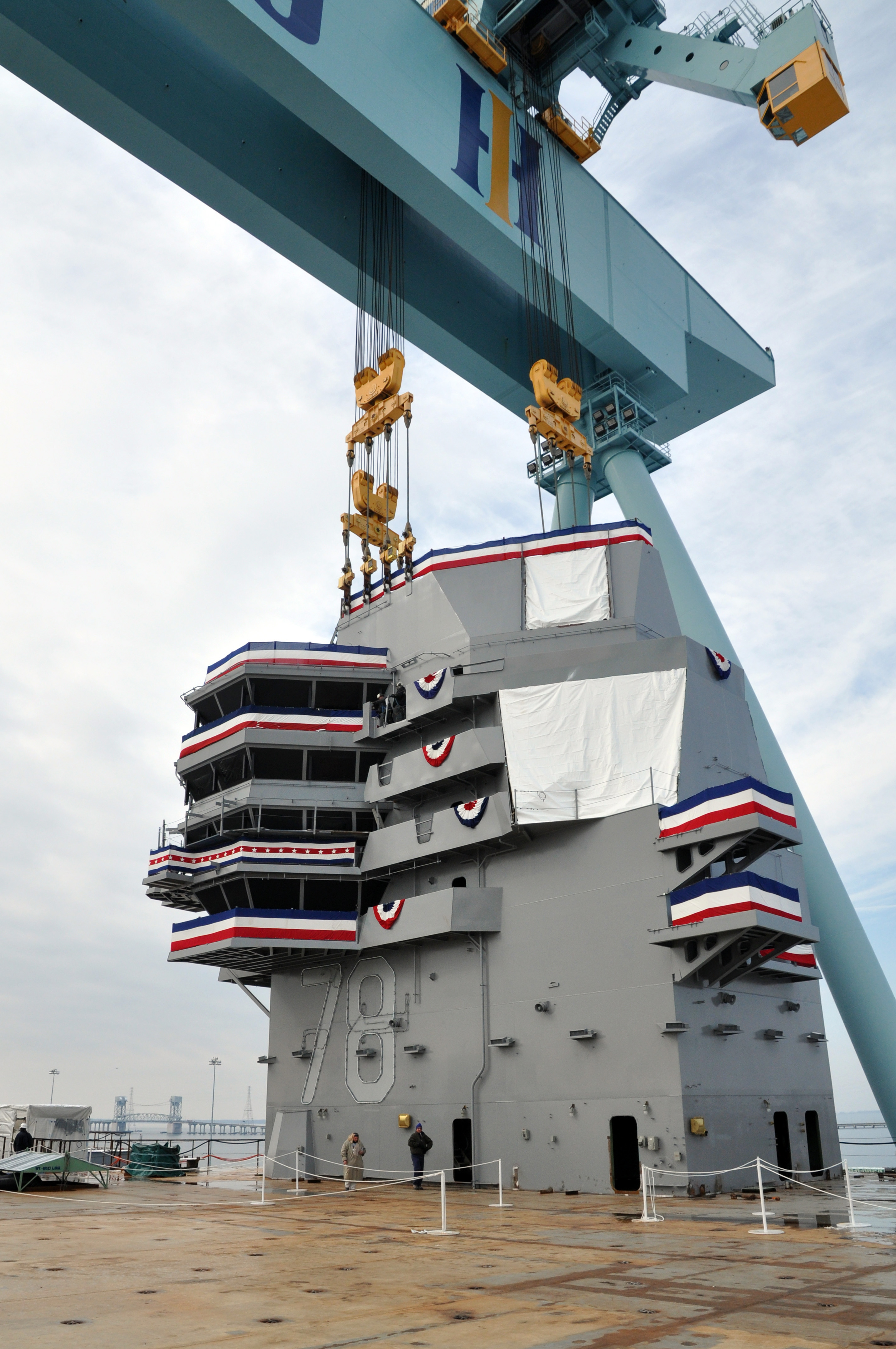 The 555-metric ton island for the future nuclear-powered aircraft carrier USS Gerald R. Ford (CVN 78) sits in place after being lifted into position on the ship's flight deck during an island landing ceremony at Huntington Ingalls Industries-Newport News Shipbuilding. The island-landing ceremony marks the final super-lift in the construction process for the ship. Gerald R. Ford is the first in a new class of aircraft carriers, and is scheduled to be delivered to the Navy in 2015.